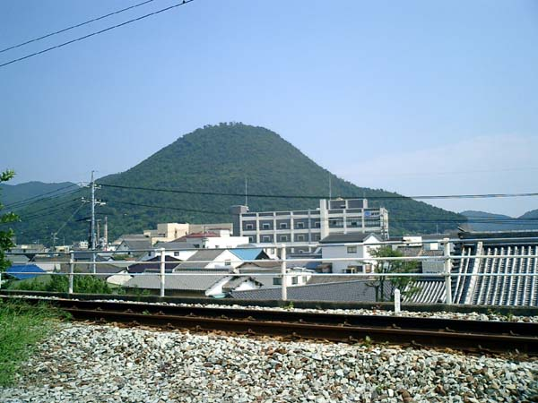 Bizen Okayama NTT West